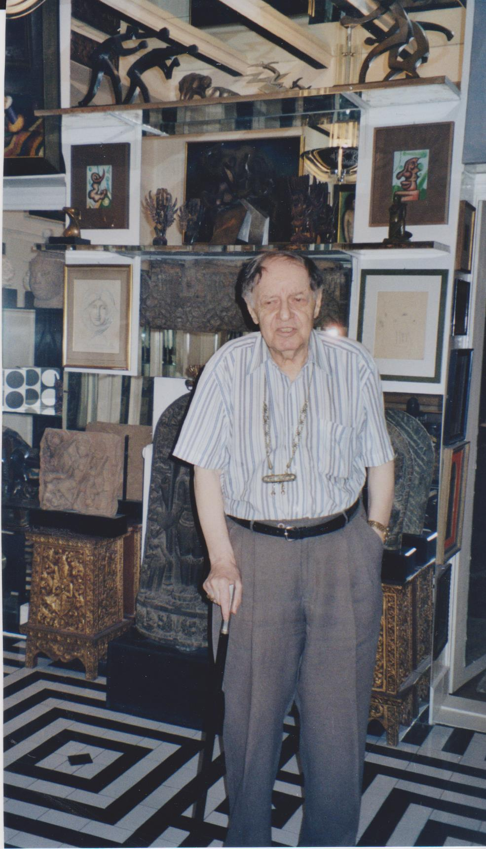 Art collector Carl Laszlo (Hungary, Switzerland) in his Basel home